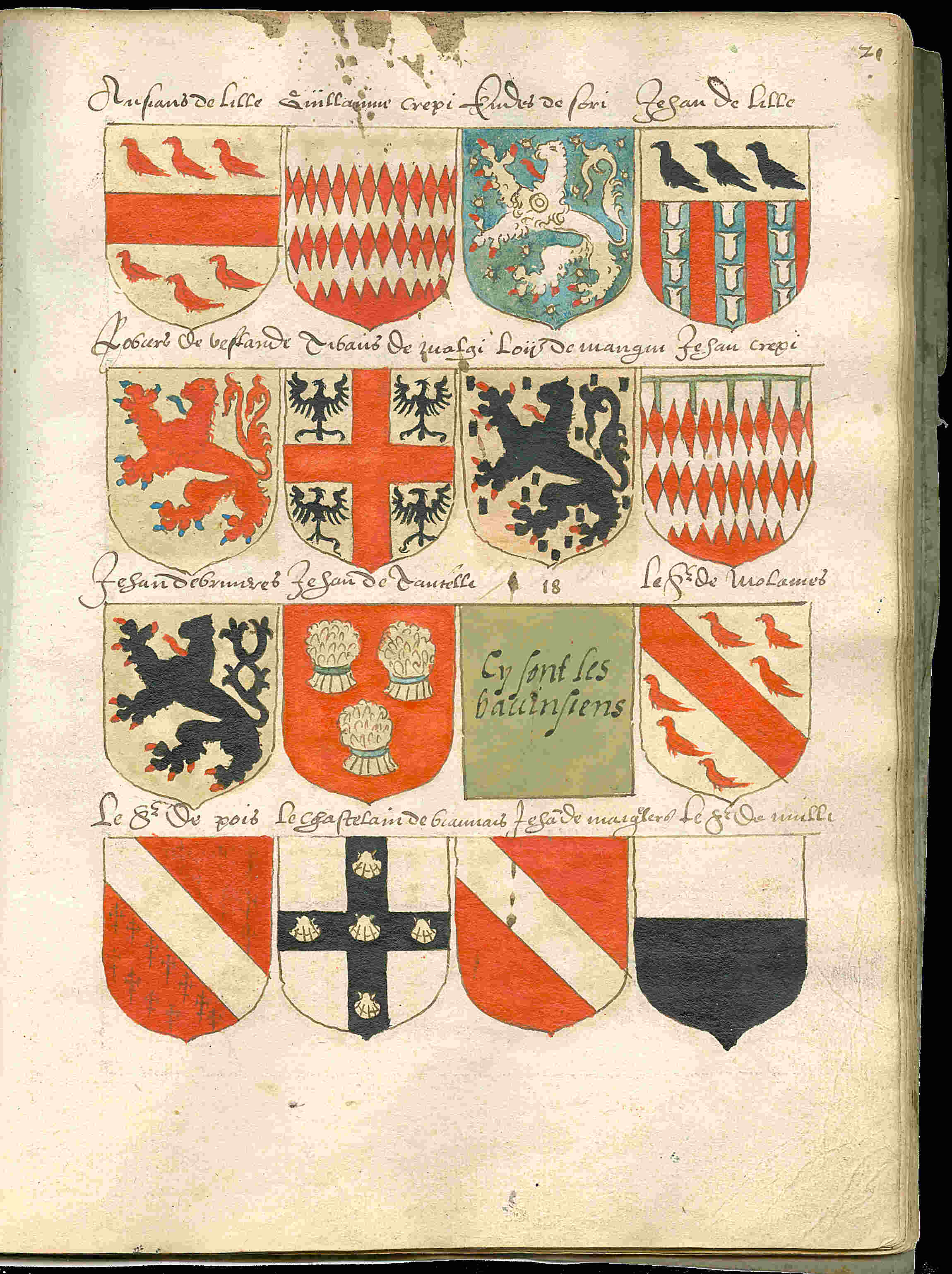 Page 21 from a copy of the Beyeren armorial / Wapenboek Beyeren from ca. 1600. The original Beyeren armorial from 1405 can be viewed at the website of the KB